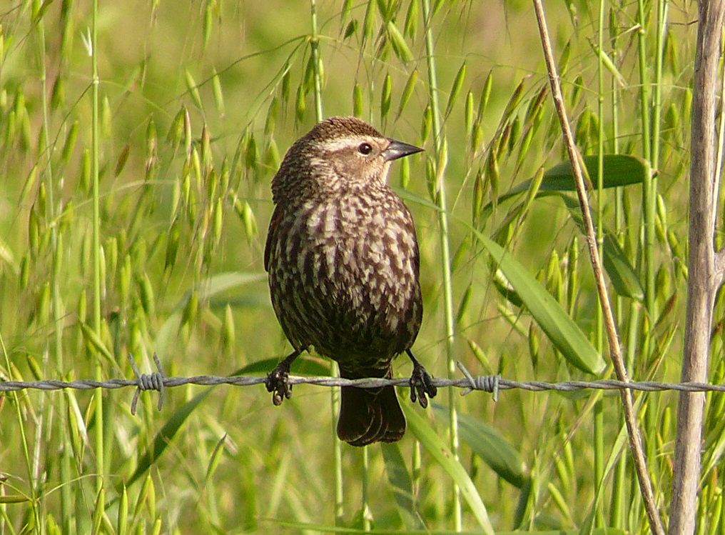 Behind her are the grasses that make me want to leave the state during the months of March and April.